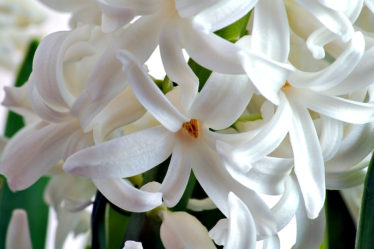 This image shows a close-up photo of an hyacinth flower (Hyacinthus spec.).